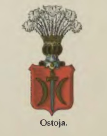 Ostoja according to Emilian Szeliga-Żernicki